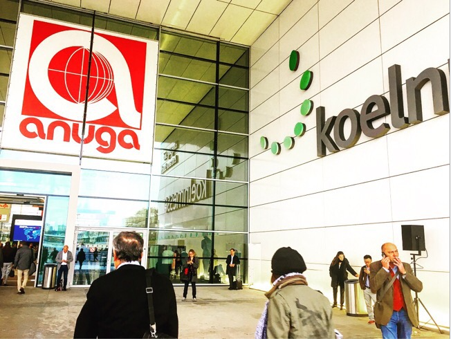 ANUGA